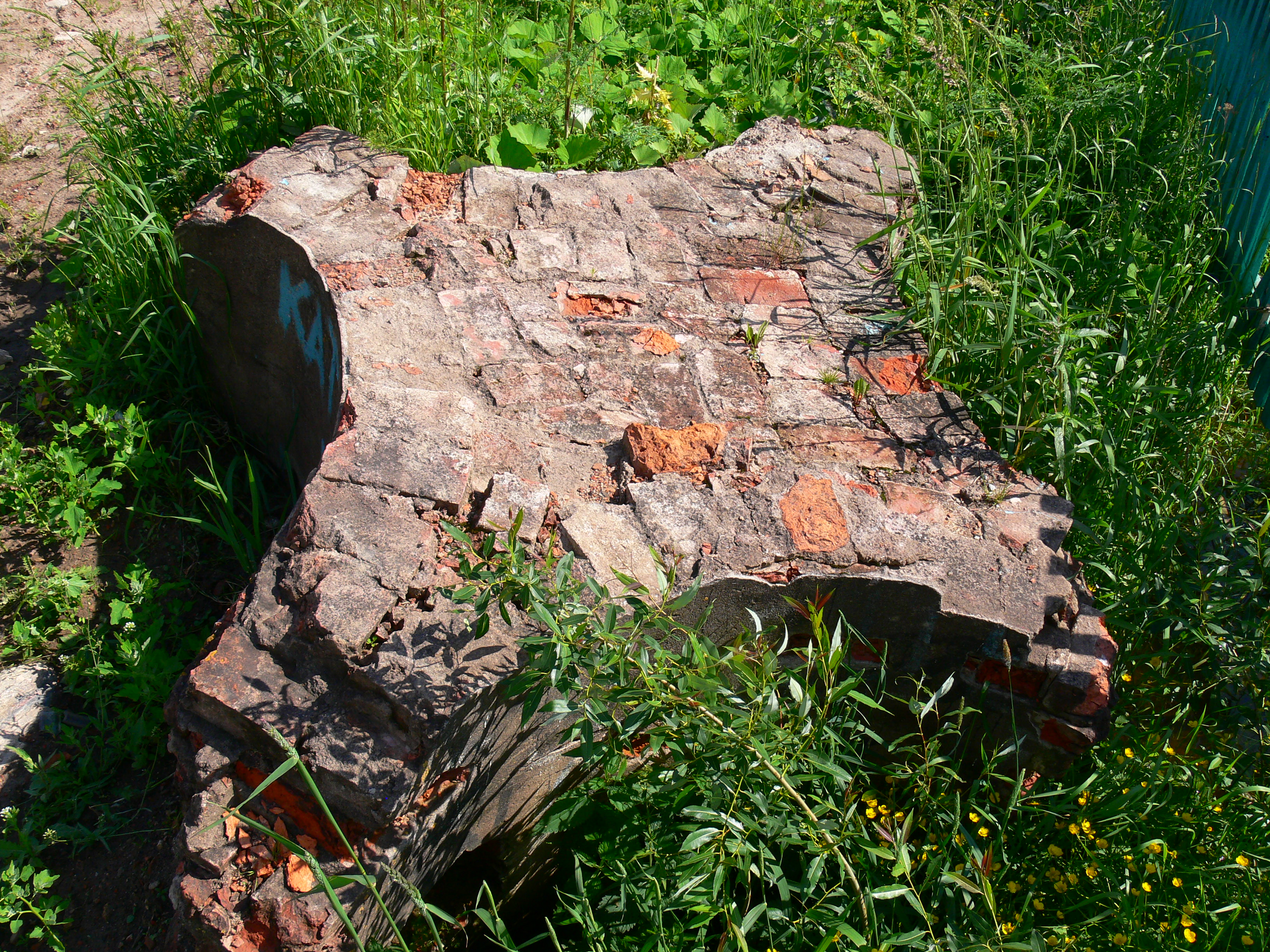 The last faragments of the Savvo-Vishersky monastery. Savino village, Novgorodsky district, Novgorod oblast, Russia